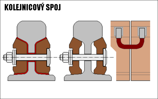 Rail joint